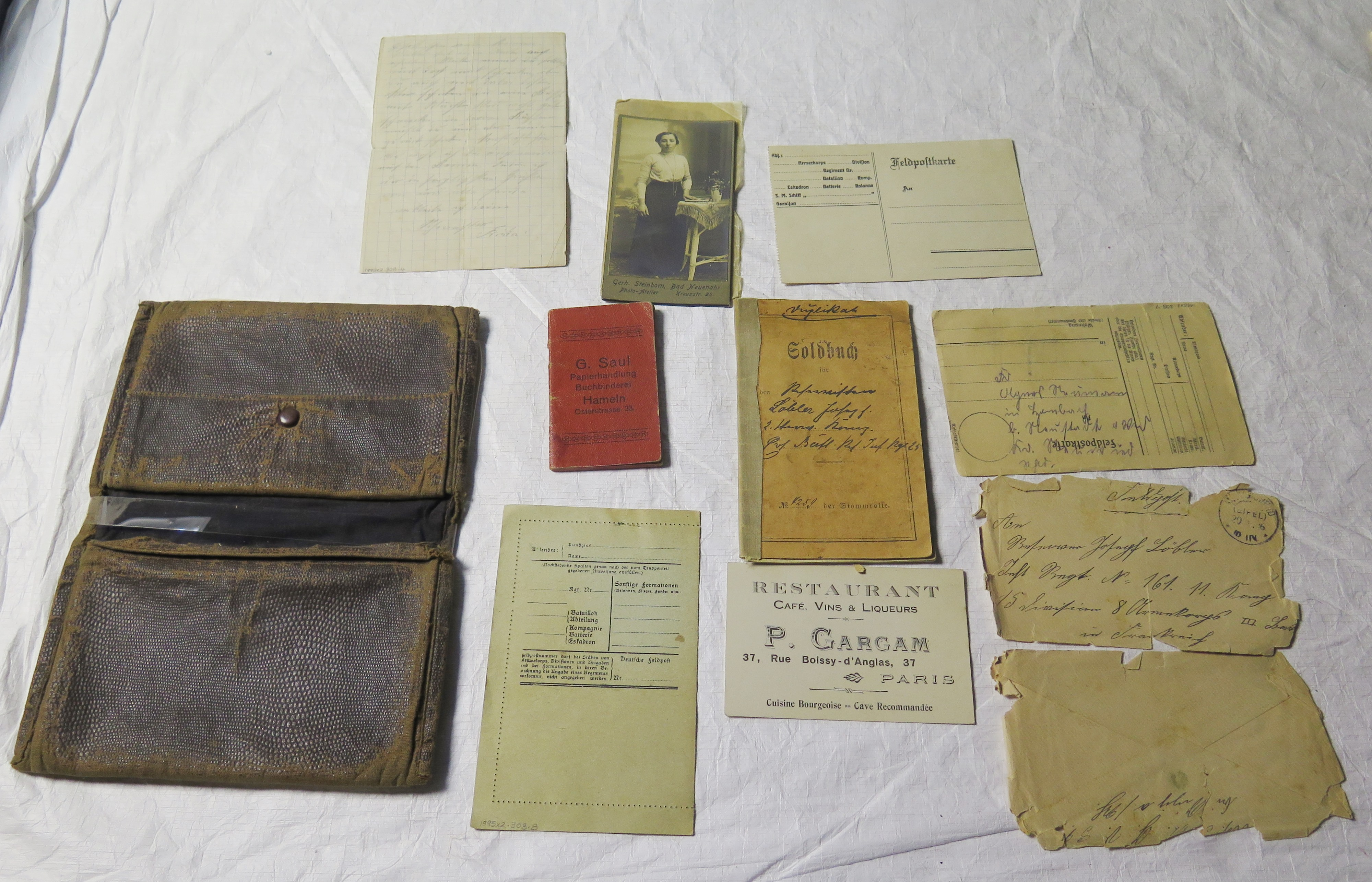 German wallet, acquired during WW1; contents recorded separately